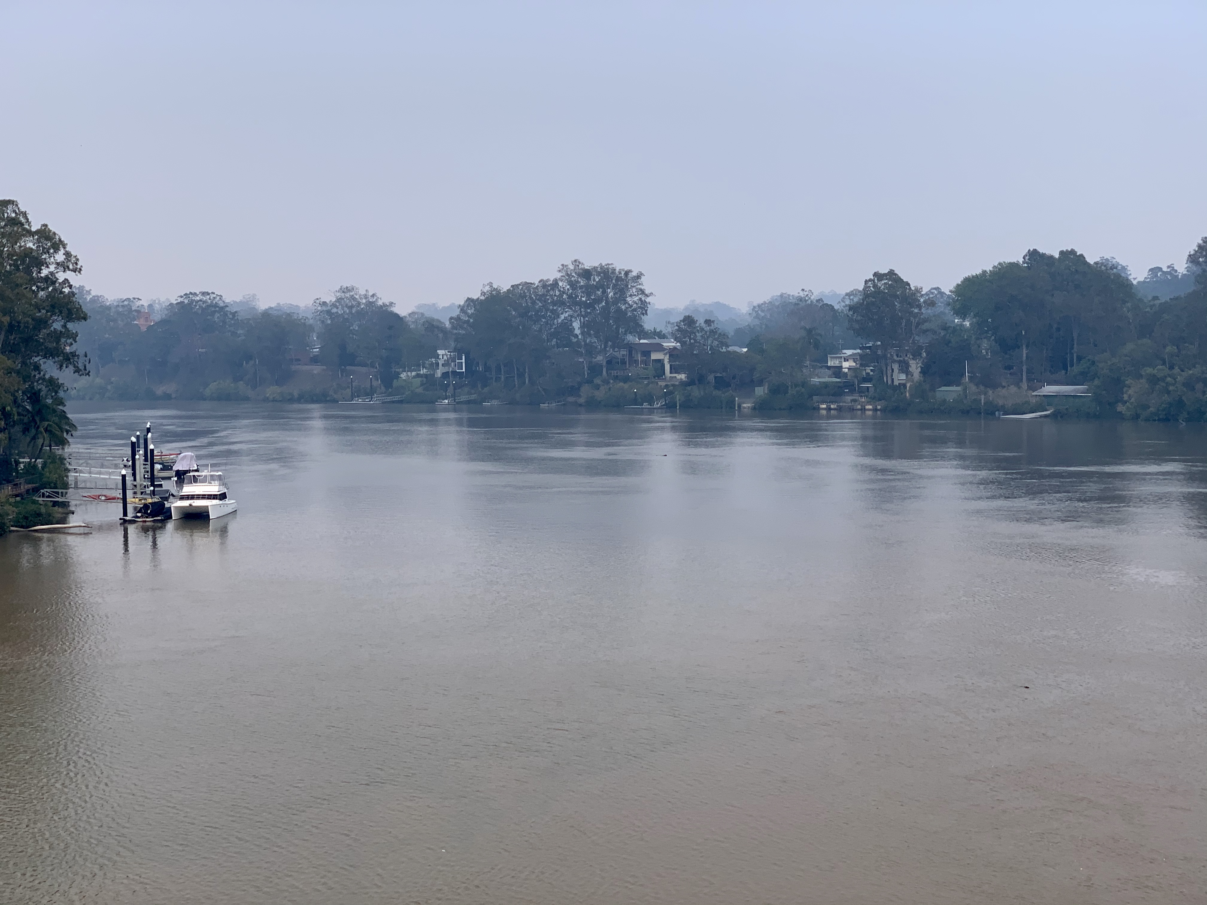 Brisbane River blanketed in smoke haze from wild bushfires, seen from Walter Taylor Bridge, November 2019